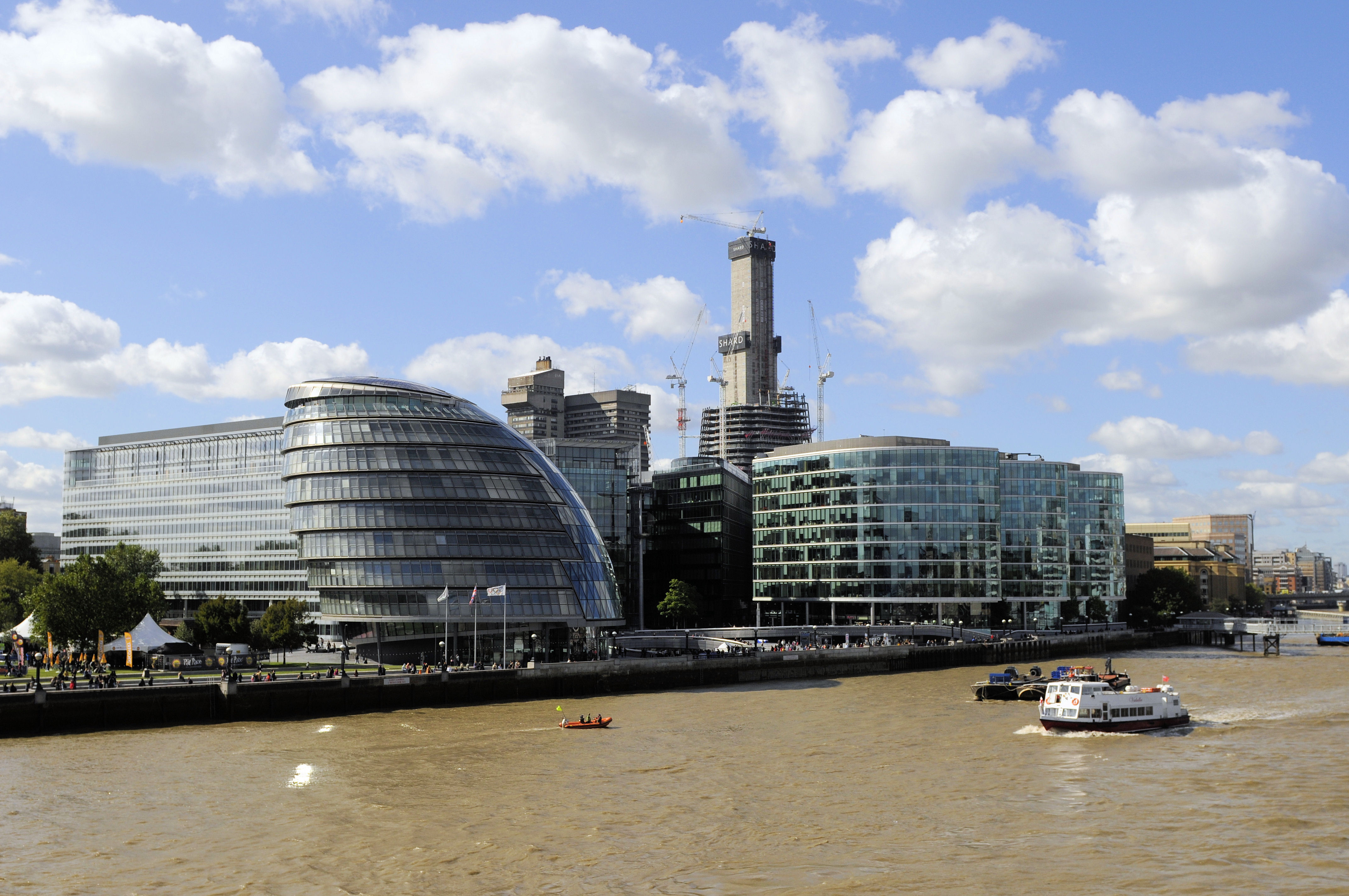 South bank of the River Thames, near Tower Bridge, Southwark, London, England.